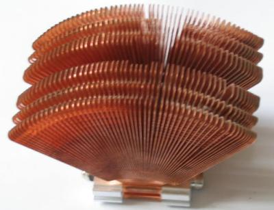 Zalman heat sink "flower". Photo taken by User:Clawed.